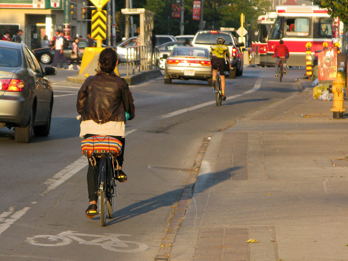 Locale: Toronto, Ontario Canada Rating: 5/5 Keywords: Active Transportation, Bicicleta, Bicycle, Bike, Bike Lane, Bikelane, Biker, Bikeway, Cycling, Cyclists, Institutions, LRT, Light Rail Transit, Magrela, People, Planning, Public Transit, Rail, Streetcar, TTC, Toronto Transit Commission, Transit, Transportation, Transporte Coletivo, Transporte Público, Urban Landscape